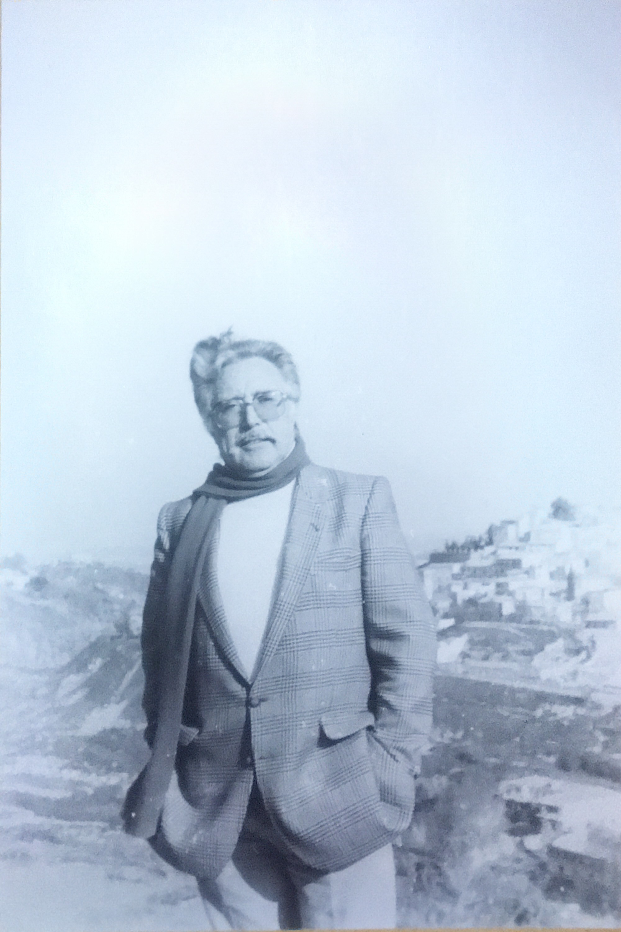 Juan Antonio Villacañas. Picture taken in Toledo.